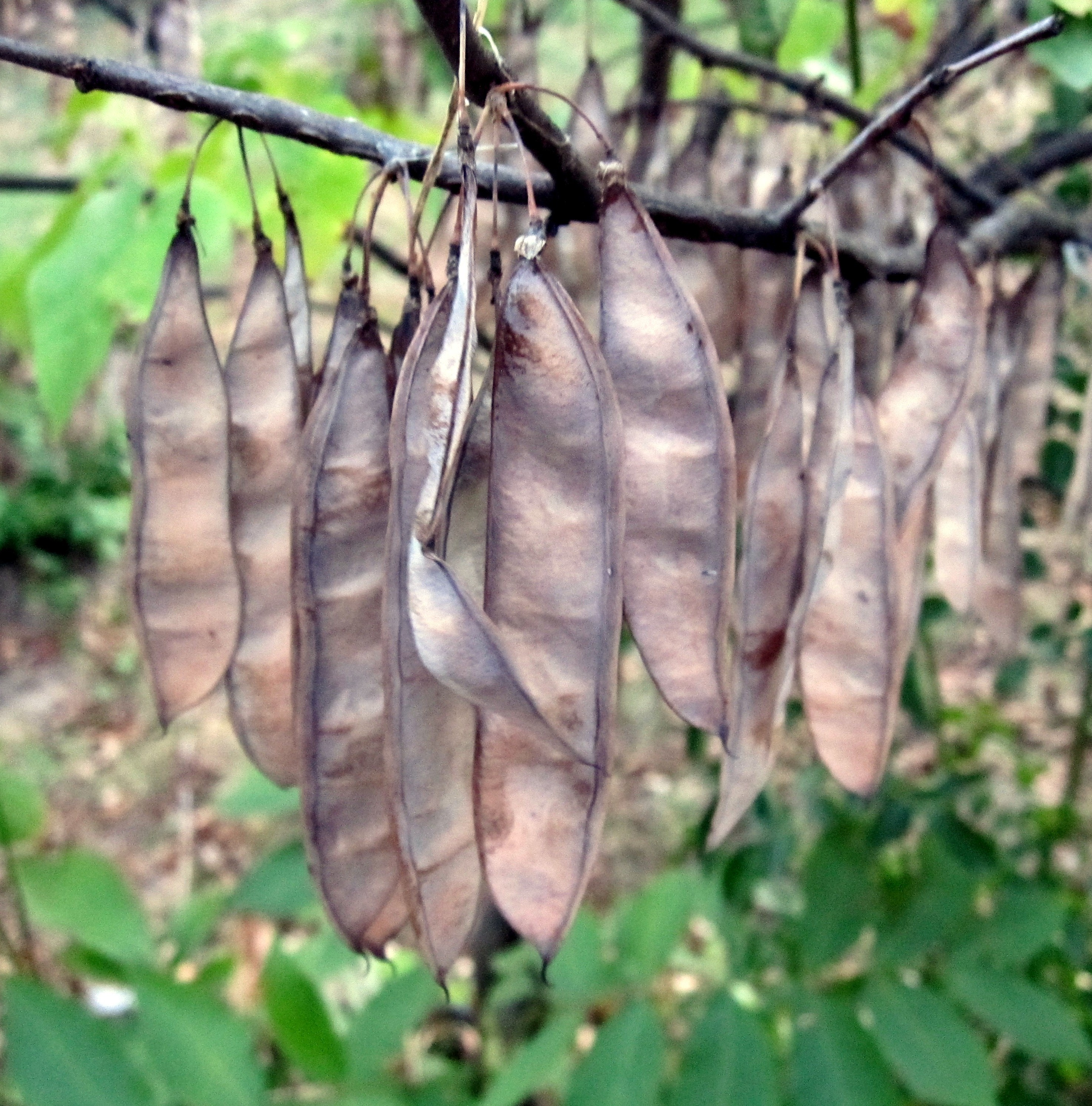 Fruit of a Redbud tree, Cercis Canadensis, in Missouri.